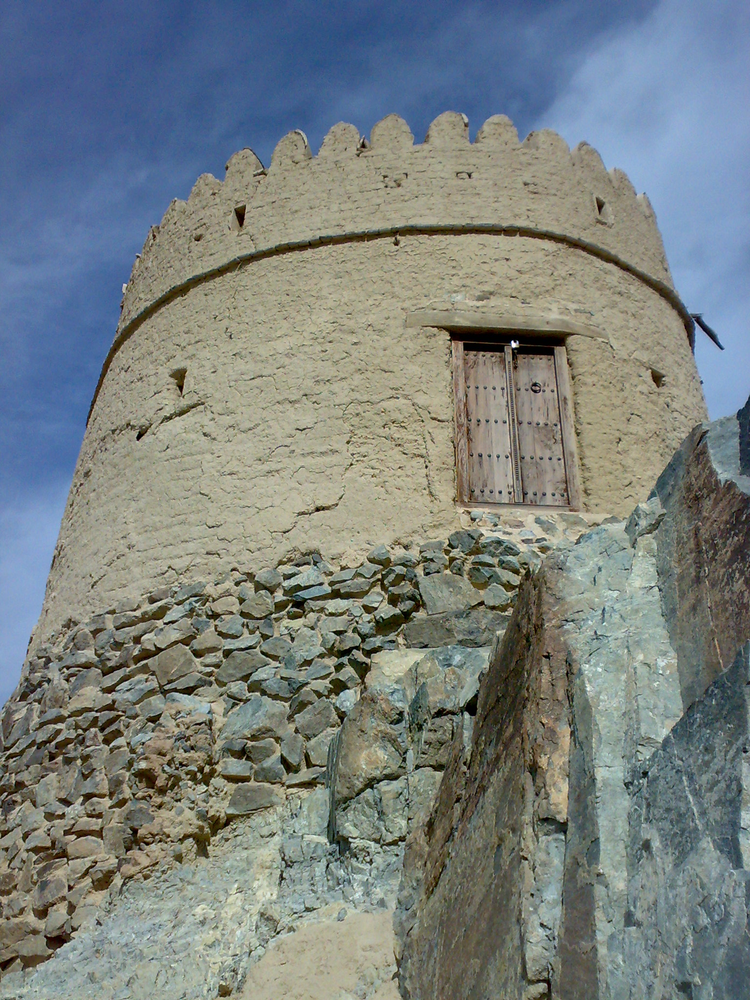 18th cent watch-tower, Hatta, UAE